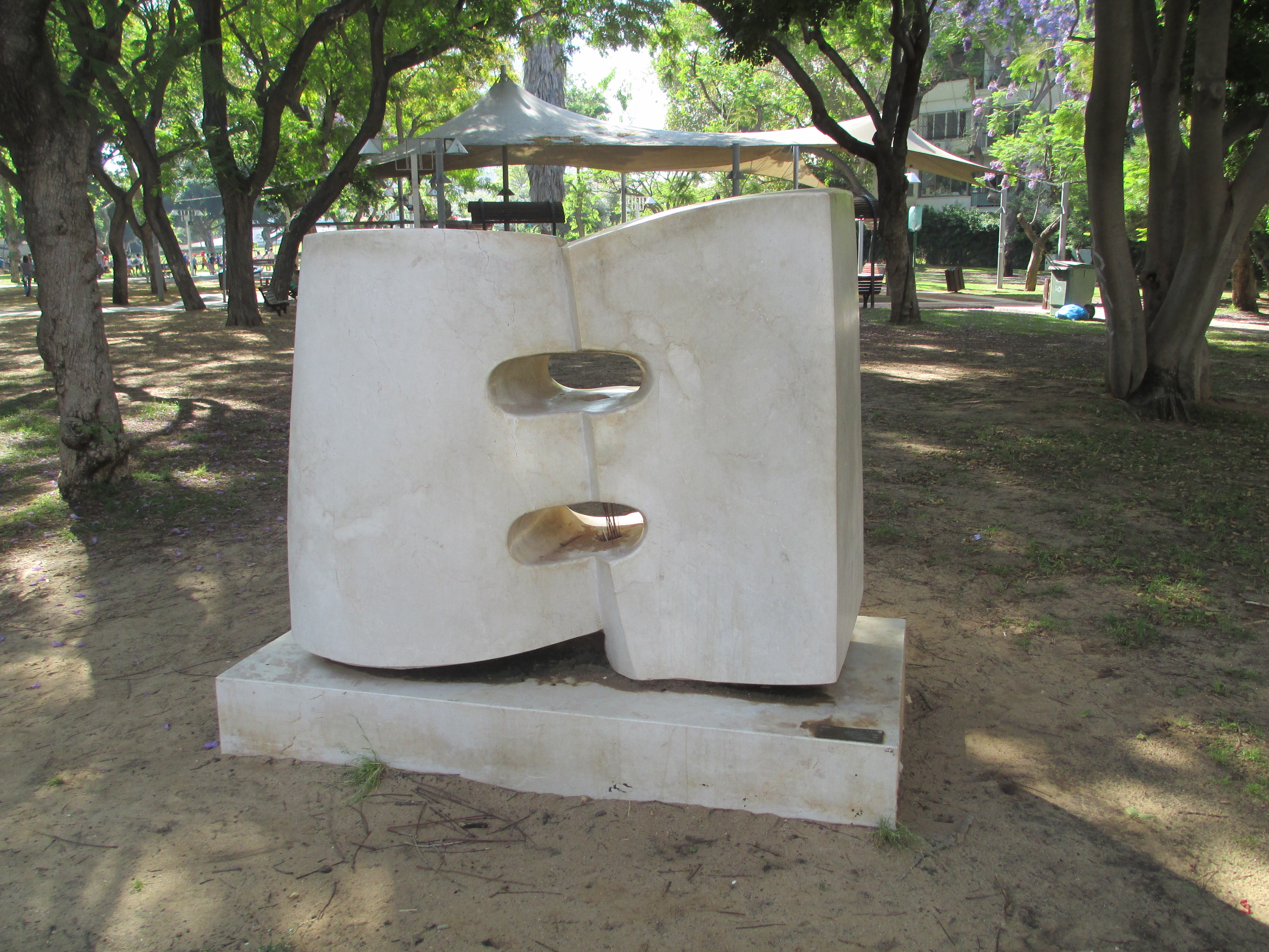 Sculpture by Mriam Chalfi in Tel Aviv